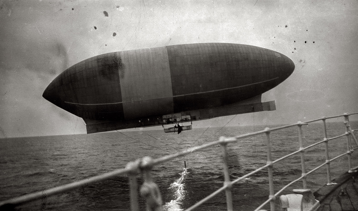 Airship America, from the rescue Steamship Trent during the Atlantic crossing in Oct. 1910